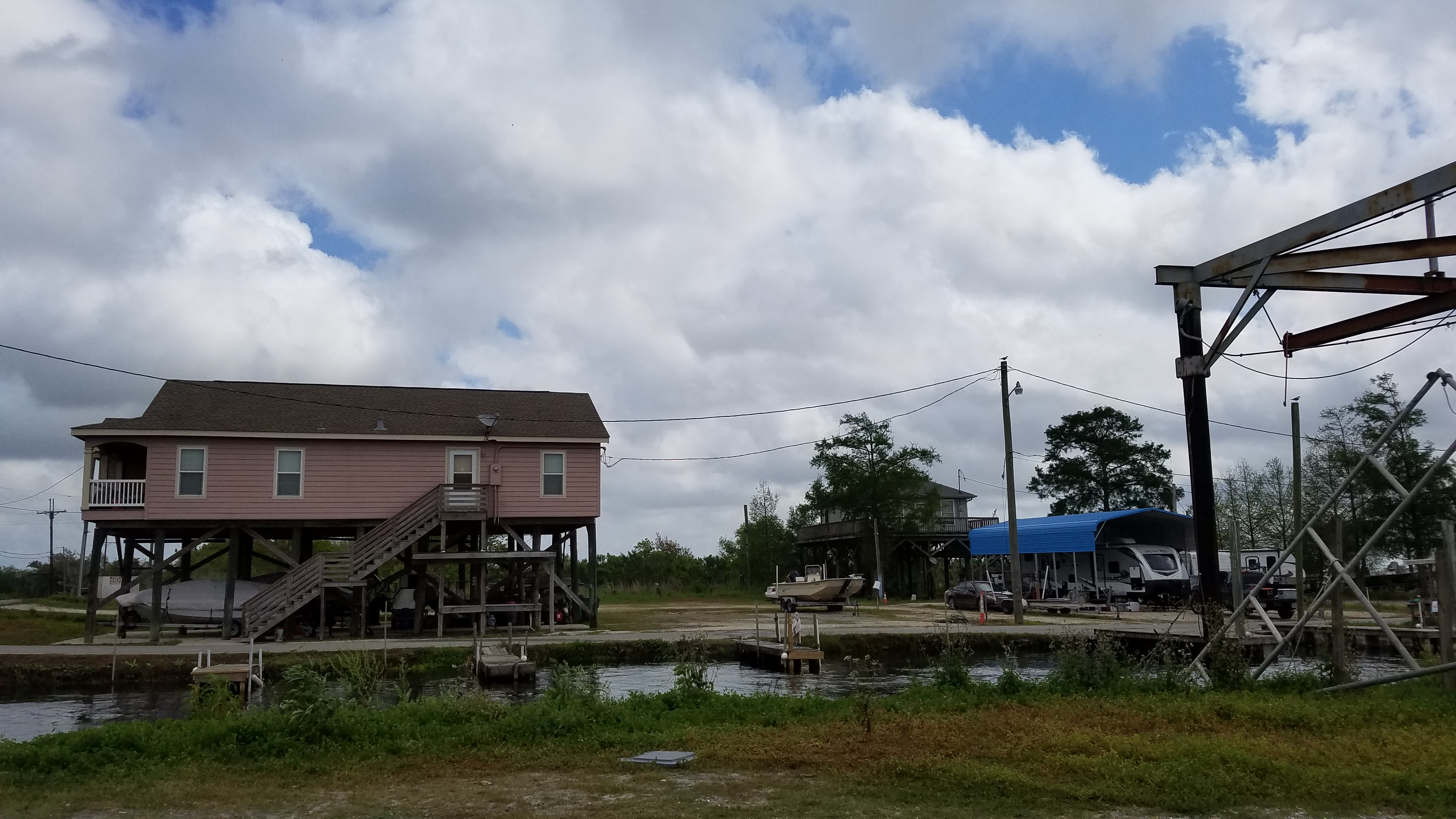 An image of houses at Bencheque-Reggio, an Isleño community in St. Bernard Parish.